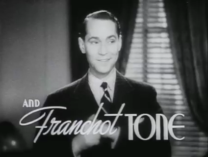 Franchot Tone in Love Is a Headache by Richard Thorpe (1938)